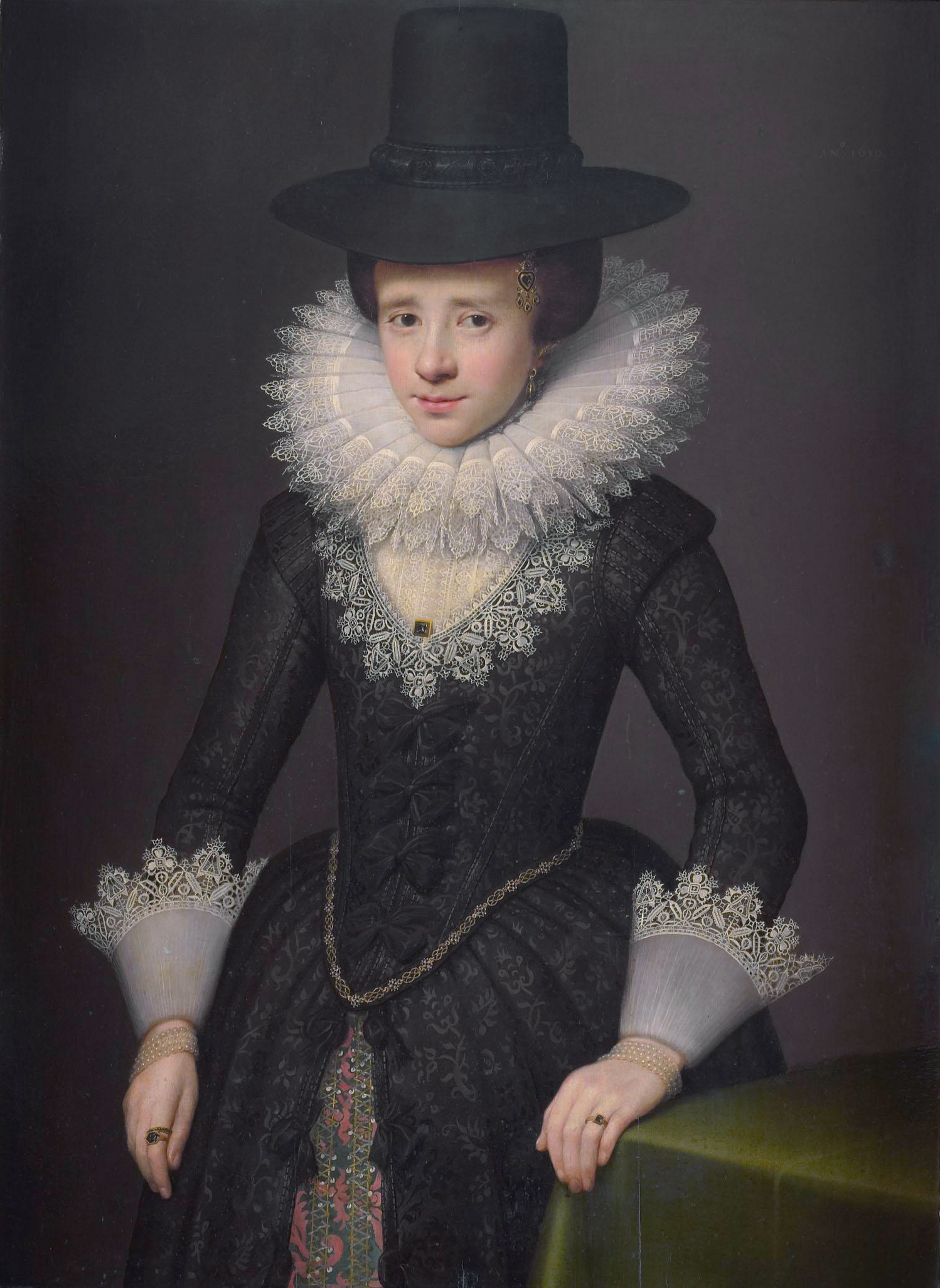 Portrait of Anna Boudaen Courten, wife of Jacob Pergens. Standing, at half length, her left hand leaning on a table. Pendant of: File:Attributed to Salomon Mesdach 001.jpg